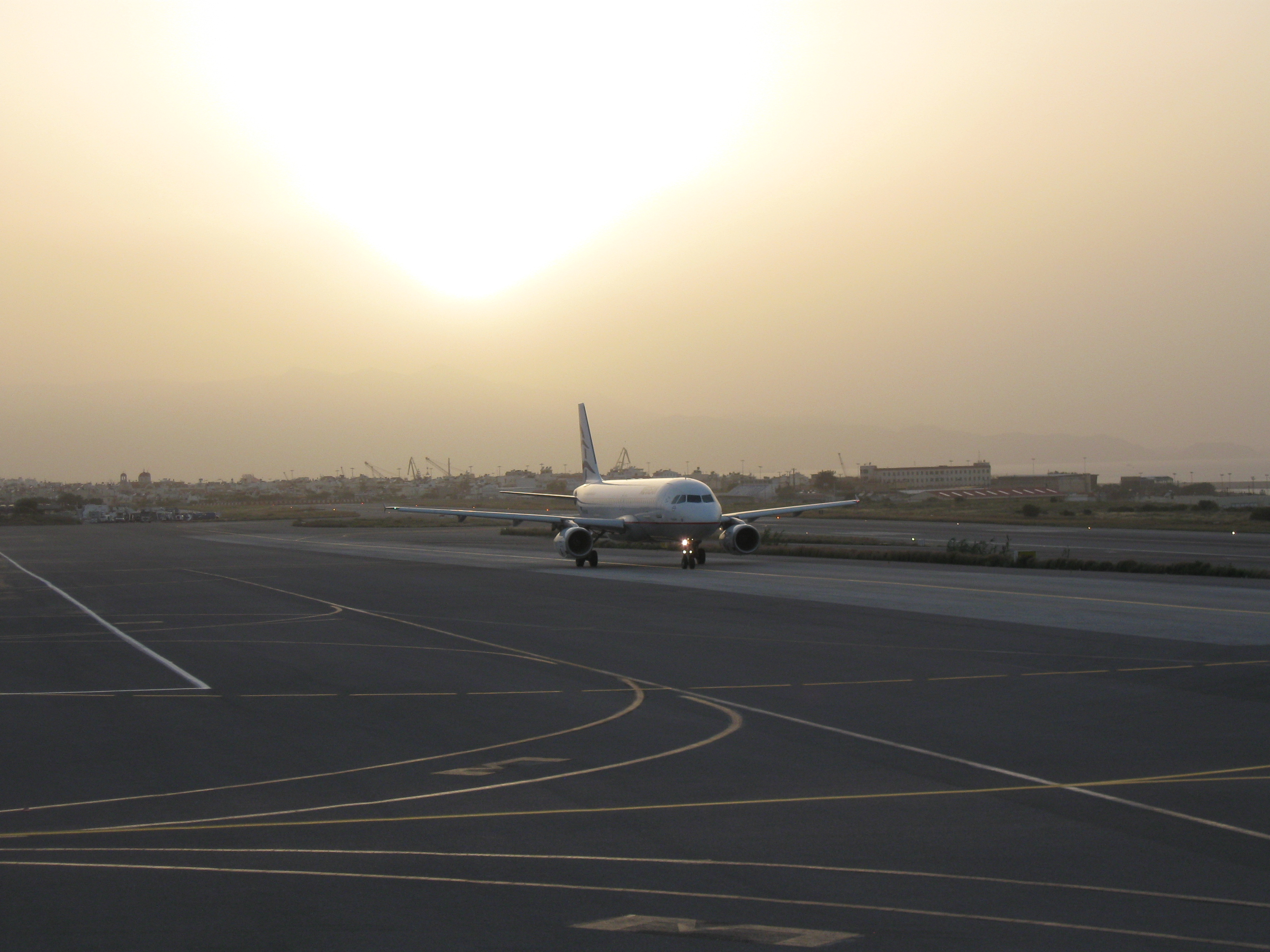 An Airbus A320-232 of Aegean Airlines after landing in Heraklion Airport, Crete